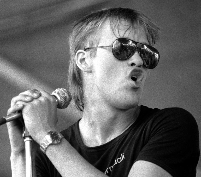 Martti Syrjä at Punkarock rock festival in Punkaharju, Finland, in 1979.